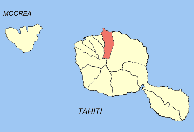 Map of Tahitian communes — Mahina